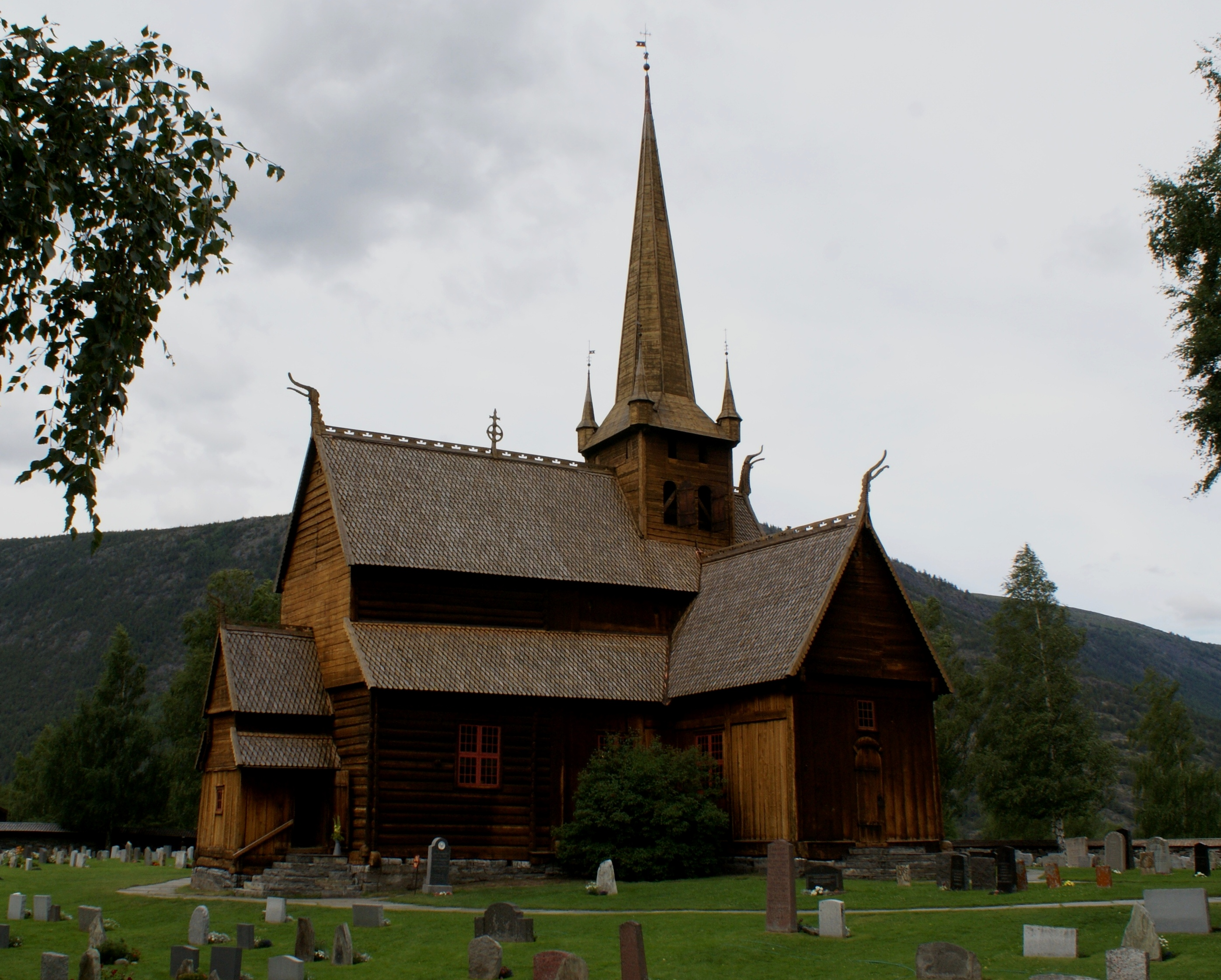 The old church stavkirke from Lom (XII cent.)